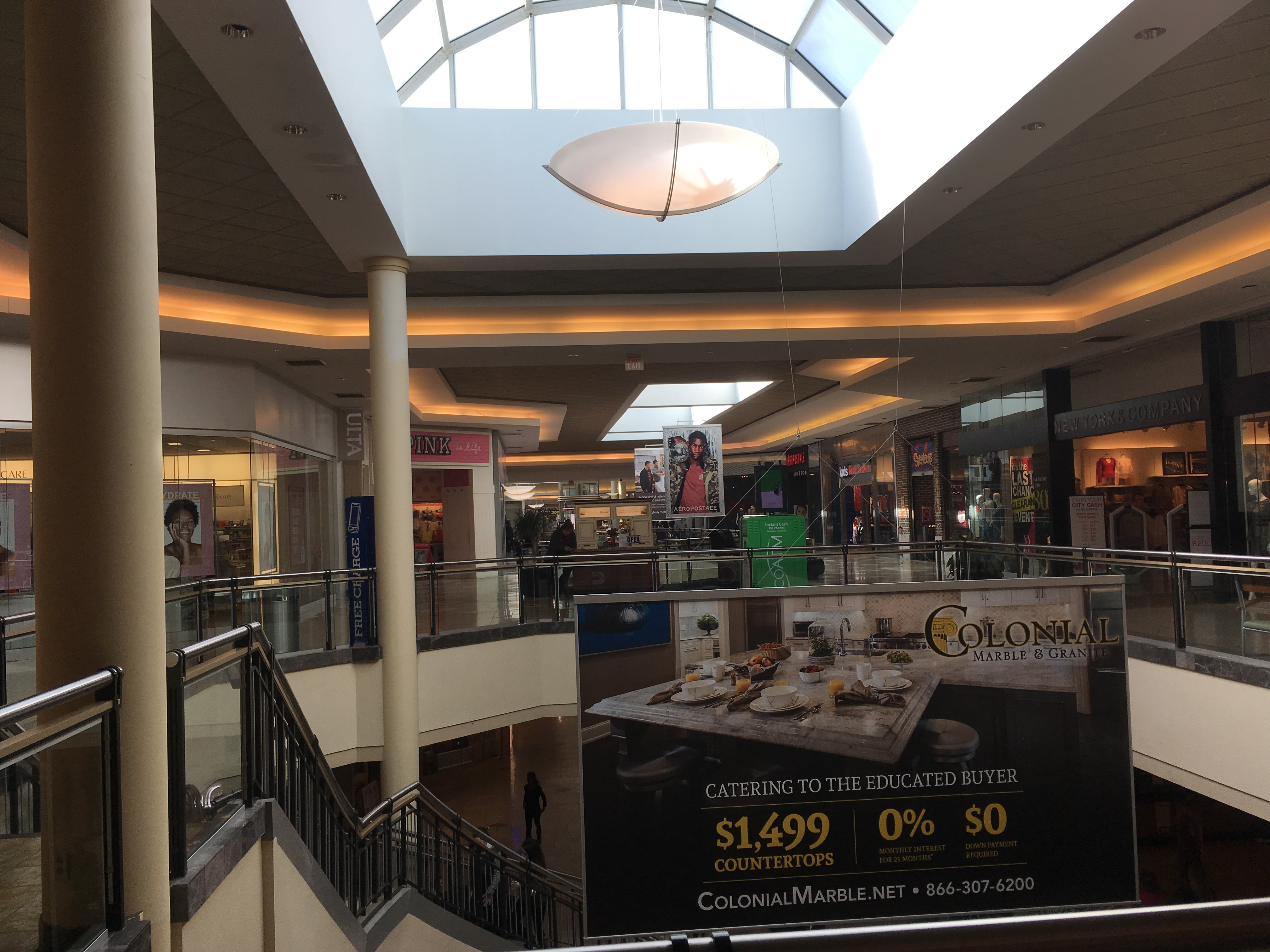 A view of the Springfield Mall in Springfield, Pennsylvania, looking from Target on the second floor